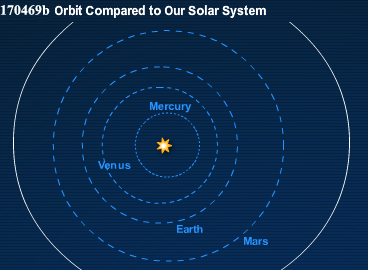 HD 170469 b's orbit compared to the orbit of Mars (1.5AU) in our Solar System.